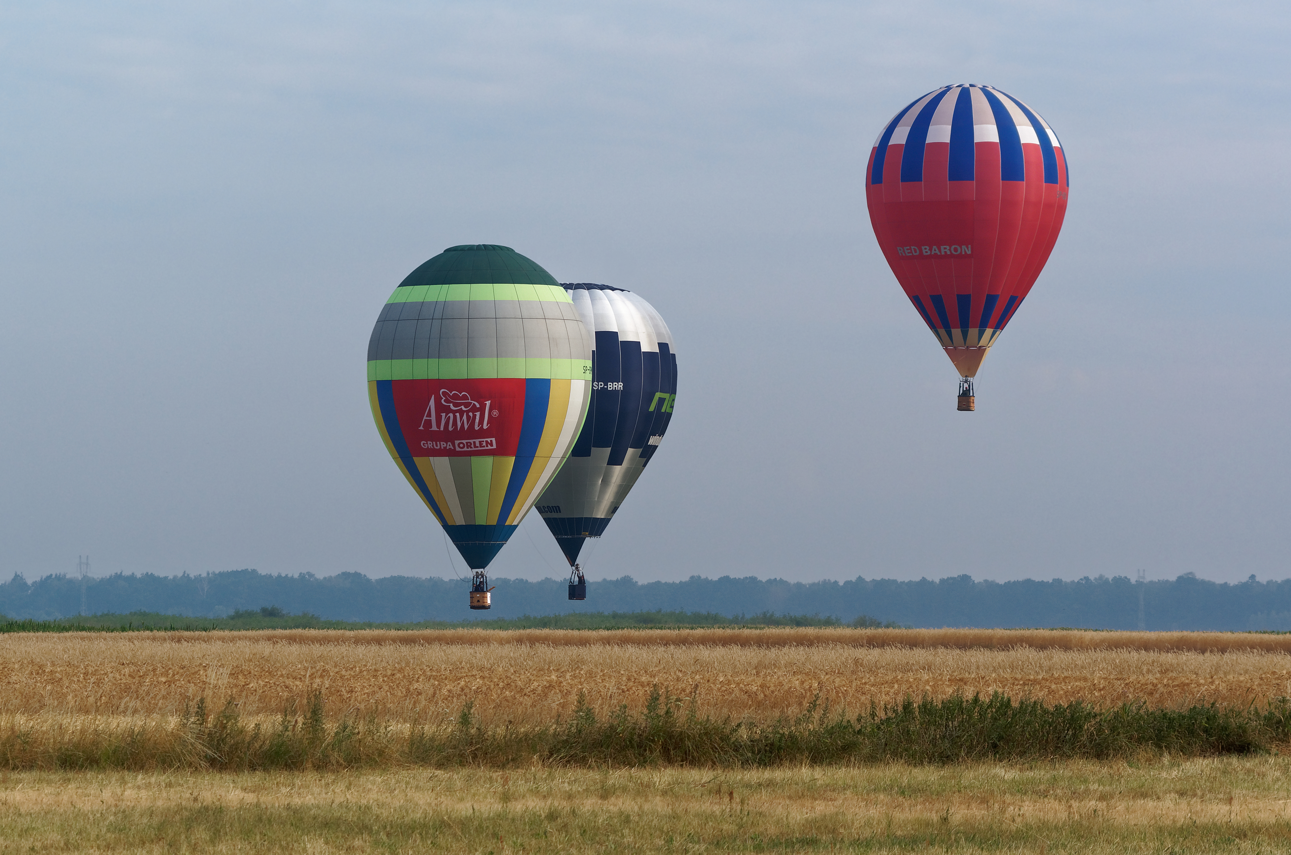 Hot air balloons of Jura Balloon Cup